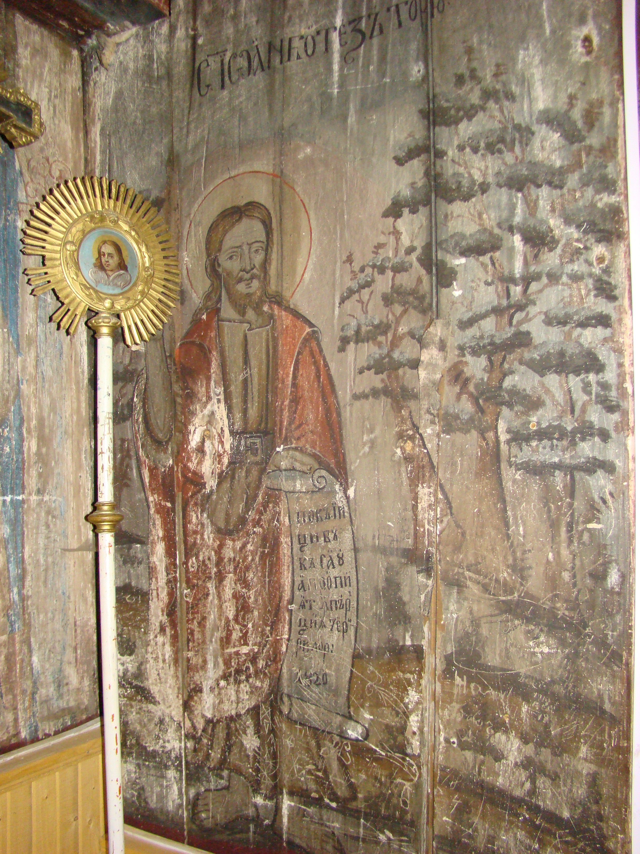 Wooden church in Roșia Nouă, Arad county, Romania